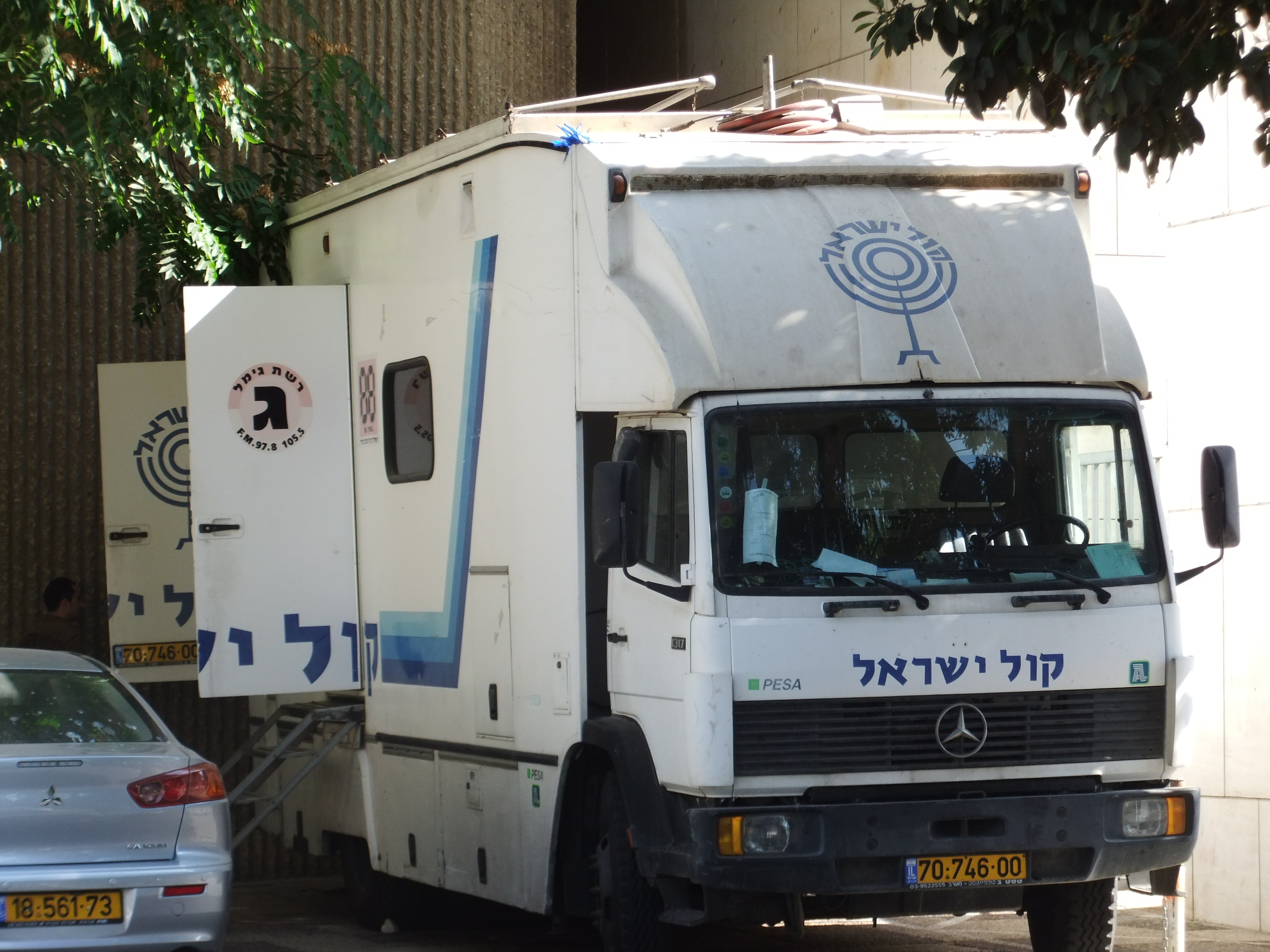 Reshet Gimel of Kol Irael broadcasting truck